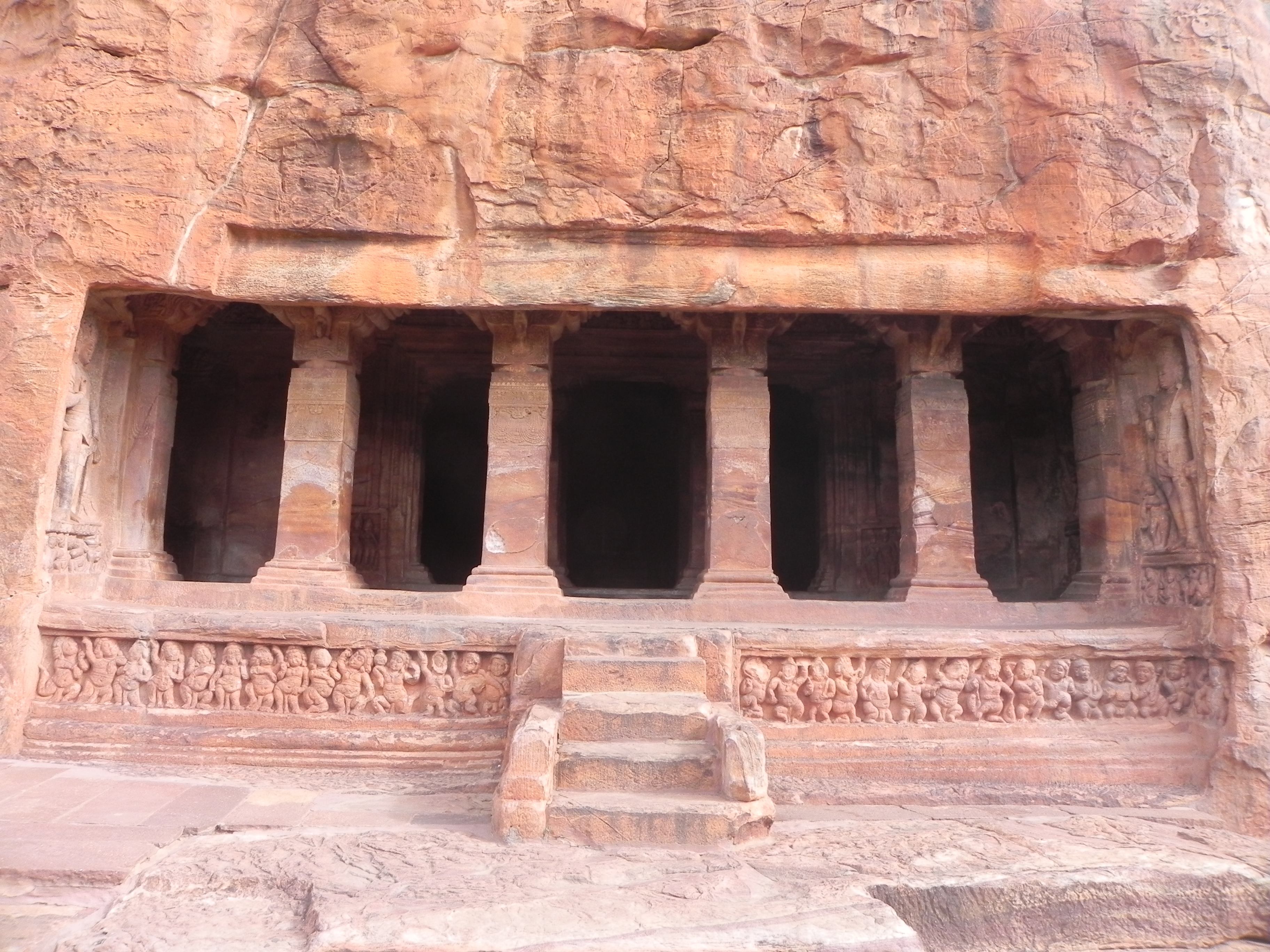 Cave No. 2 Badami Cave Temples , Karnataka, India